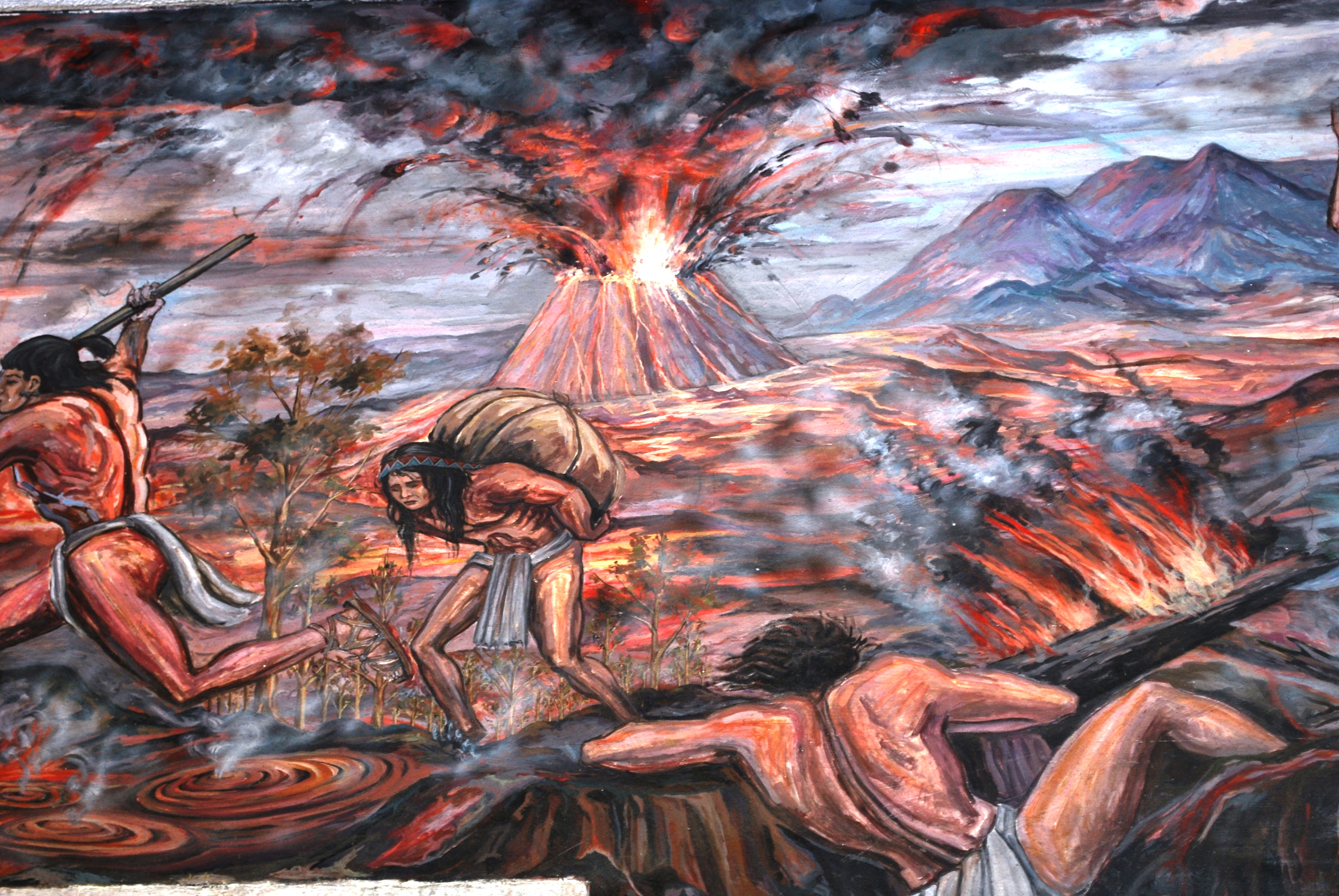 Section of mural work on the Government Palace in Tlalpan depicting the eruption of the Xitle volcano